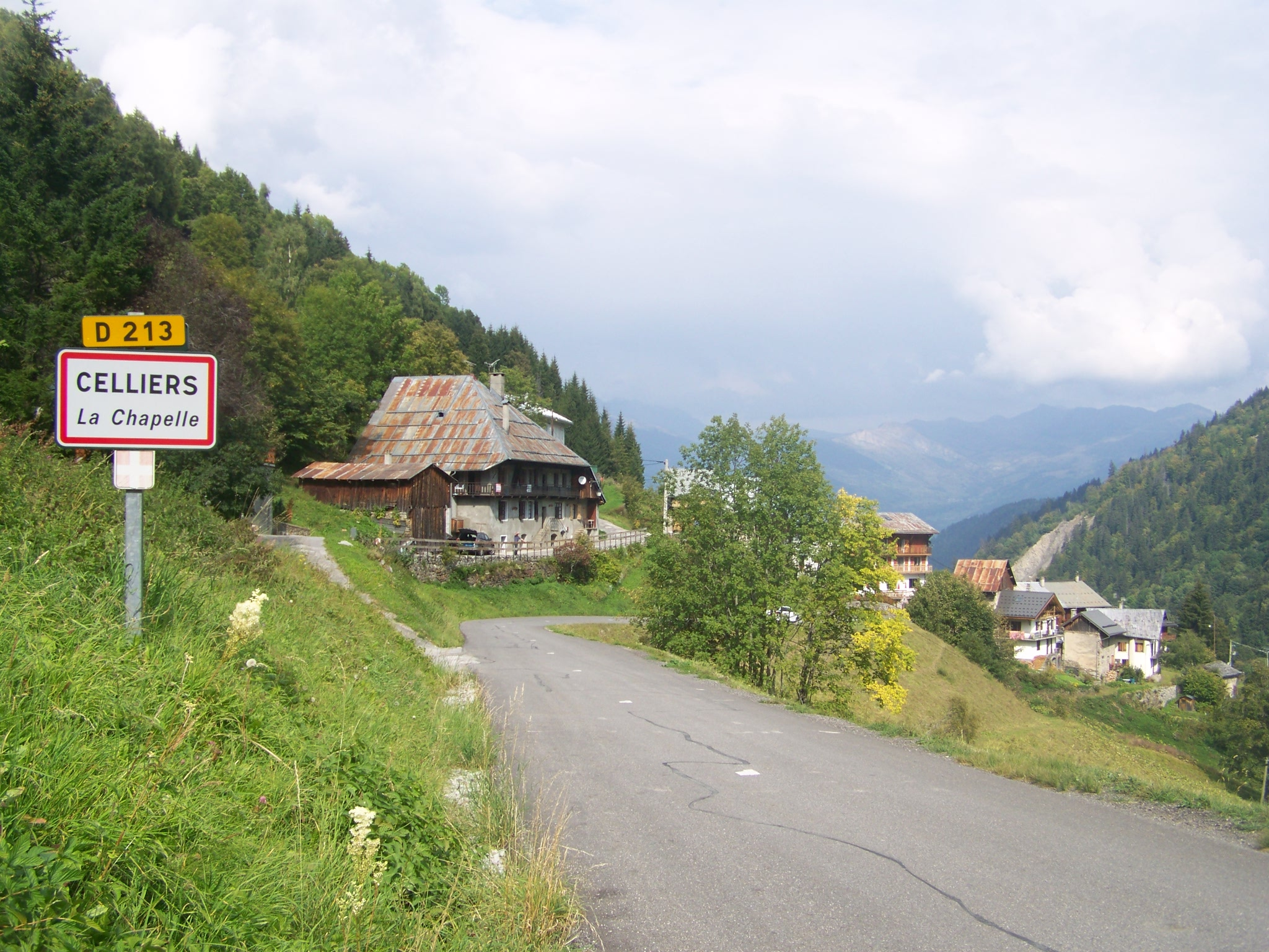 Village of Celliers on the commune of La Léchère in Savoie, France.